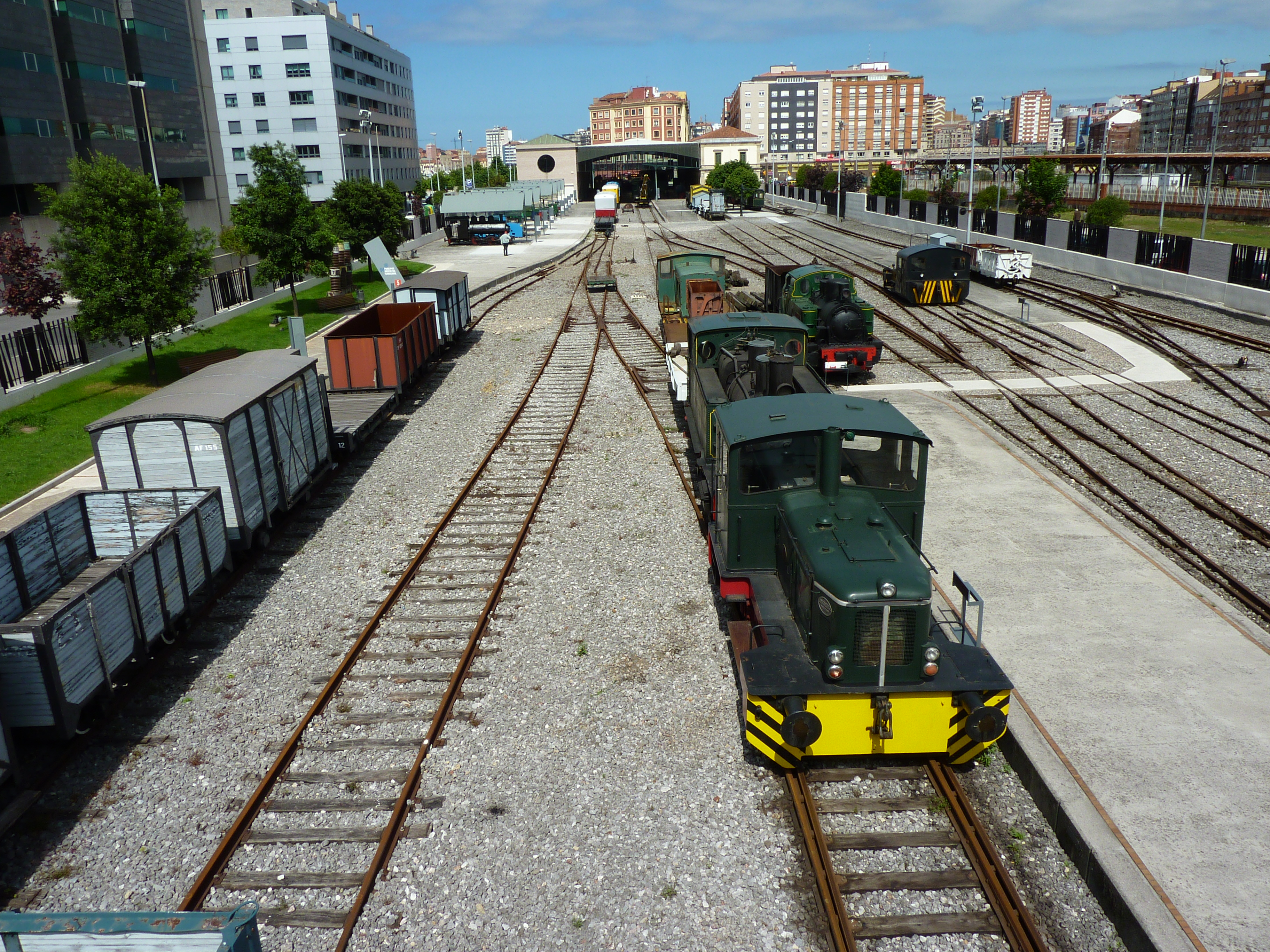 Outdoor tracks with locomotives and waggons, in Asturian Railway Museum, Gijón, Asturias, Spain